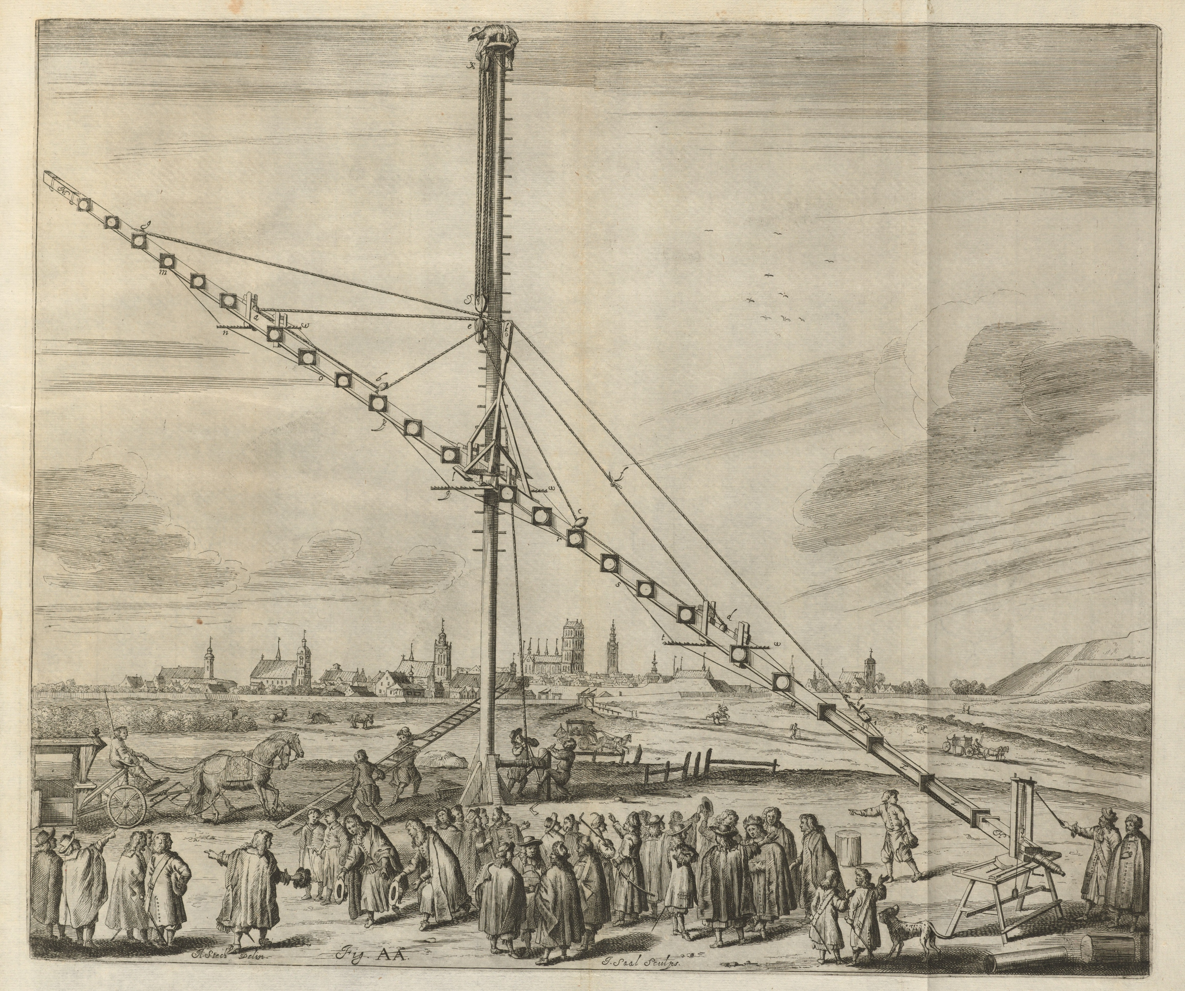 Fig. AA from Machinae coelestis, 1673, by Johannes Hevelius (1611-1687). Typ 620.73.451, Houghton Library, Harvard University